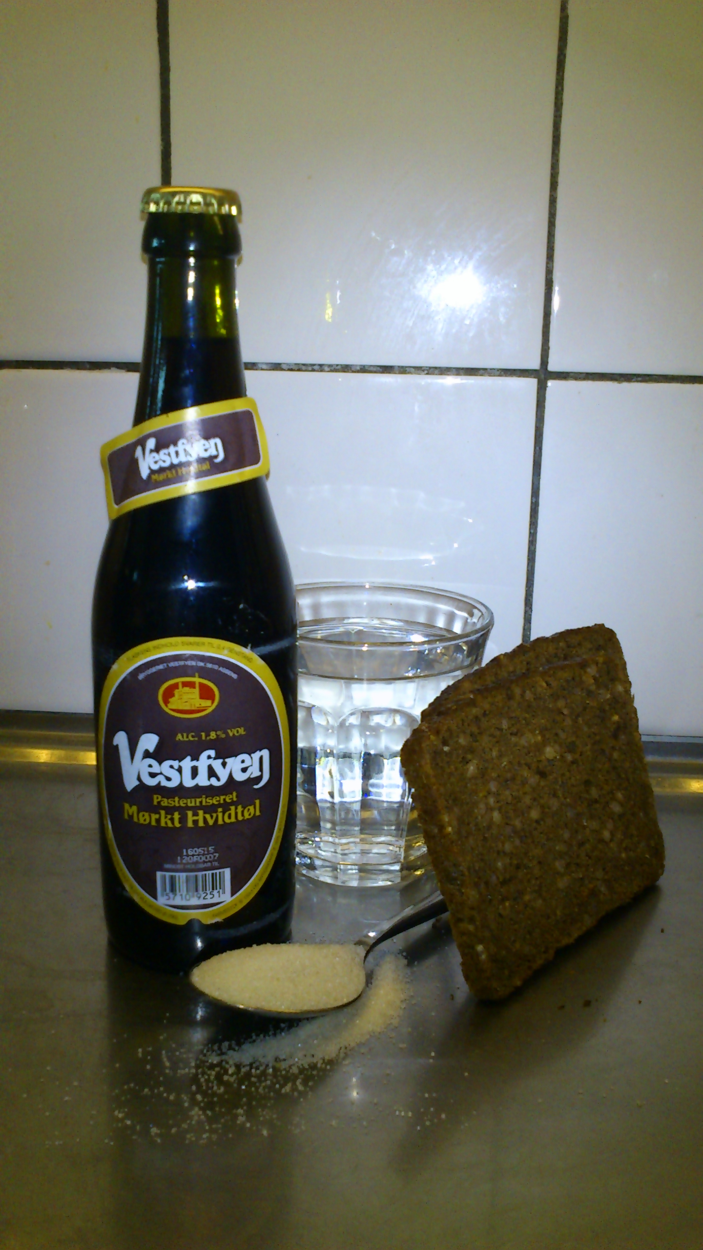 Ingredients for home made Øllebrød. 2 slices of rye bread, 1 tbs of sugar, 2.5 dl water, 2.5 dl Hvidtøl. Equal amounts of water and beer. This will serve 1-2 persons. Cook it all for 5-10 minutes, until the bread is dissolved completely. Blend if necessary. Soak the bread in the liquid overnight for best results. Using the whole bottle of Hvidtøl (33 cl), will require a doubling of the other ingredients and it gives 2-4 servings. To get the authentic outcome it is important to use Scandinavian rye bread, it taste different. Pumpernickel could perhaps be used as a substitute. If Hvidtøl is not available, a spicy dark beer could perhaps be experimented with, but it would require extra sugar.